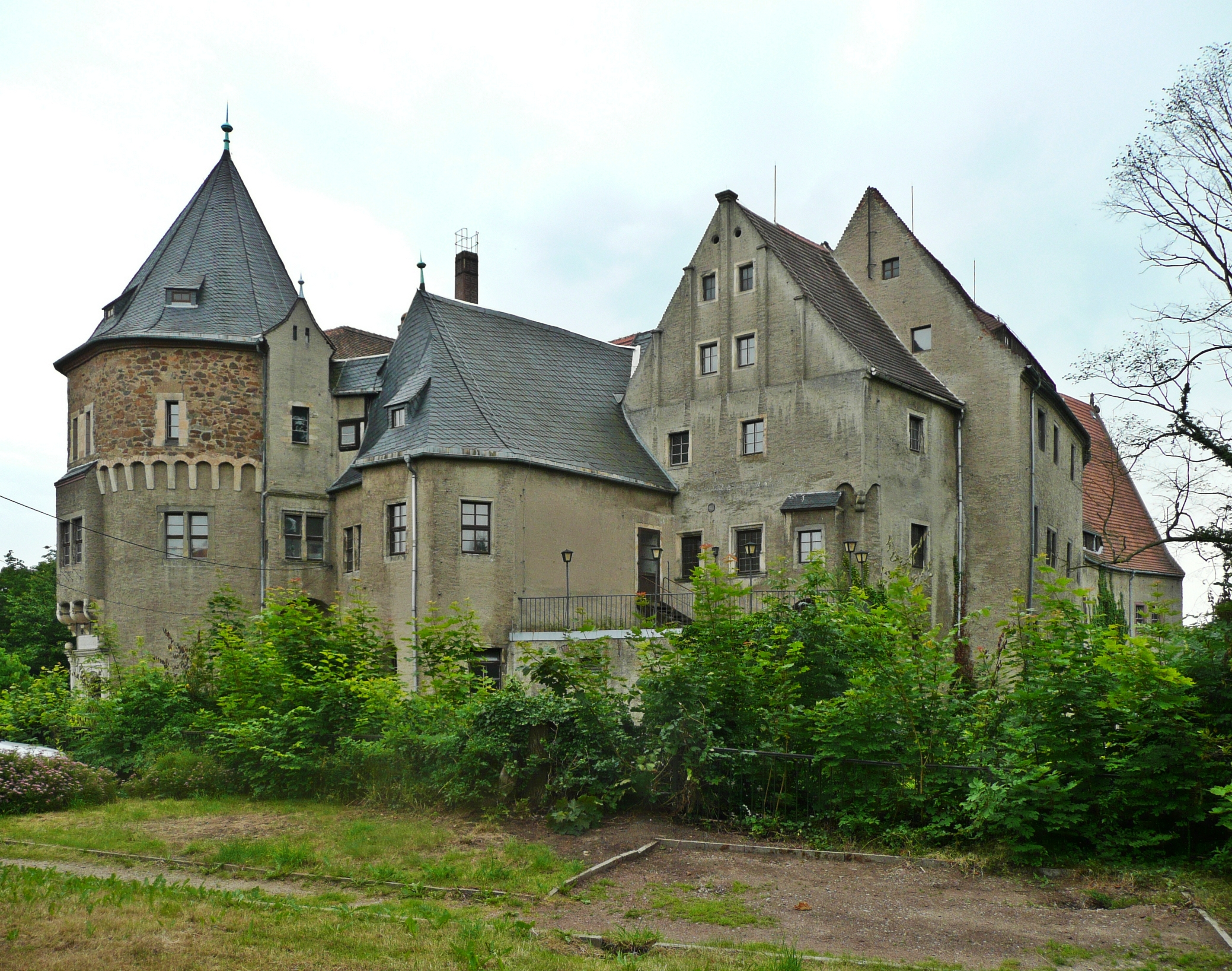 This image shows Schloss Reinsberg (Reinsberg Castle) in Reinsberg in Saxony.